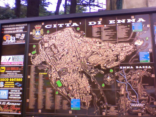 City map of Enna, Italy-Mappa stradale di Enna, Italia